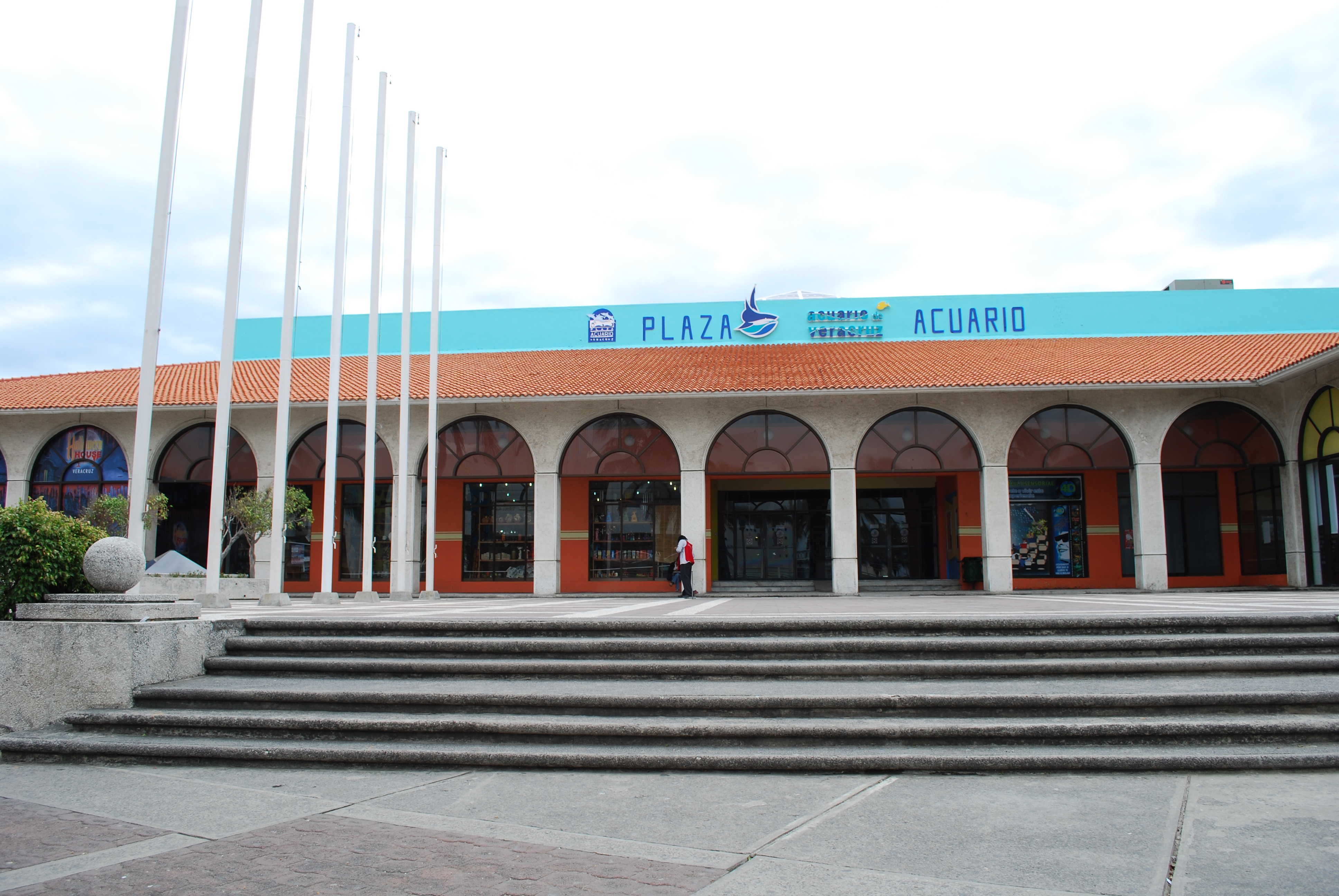 Facade of the Aquarium of Veracruz